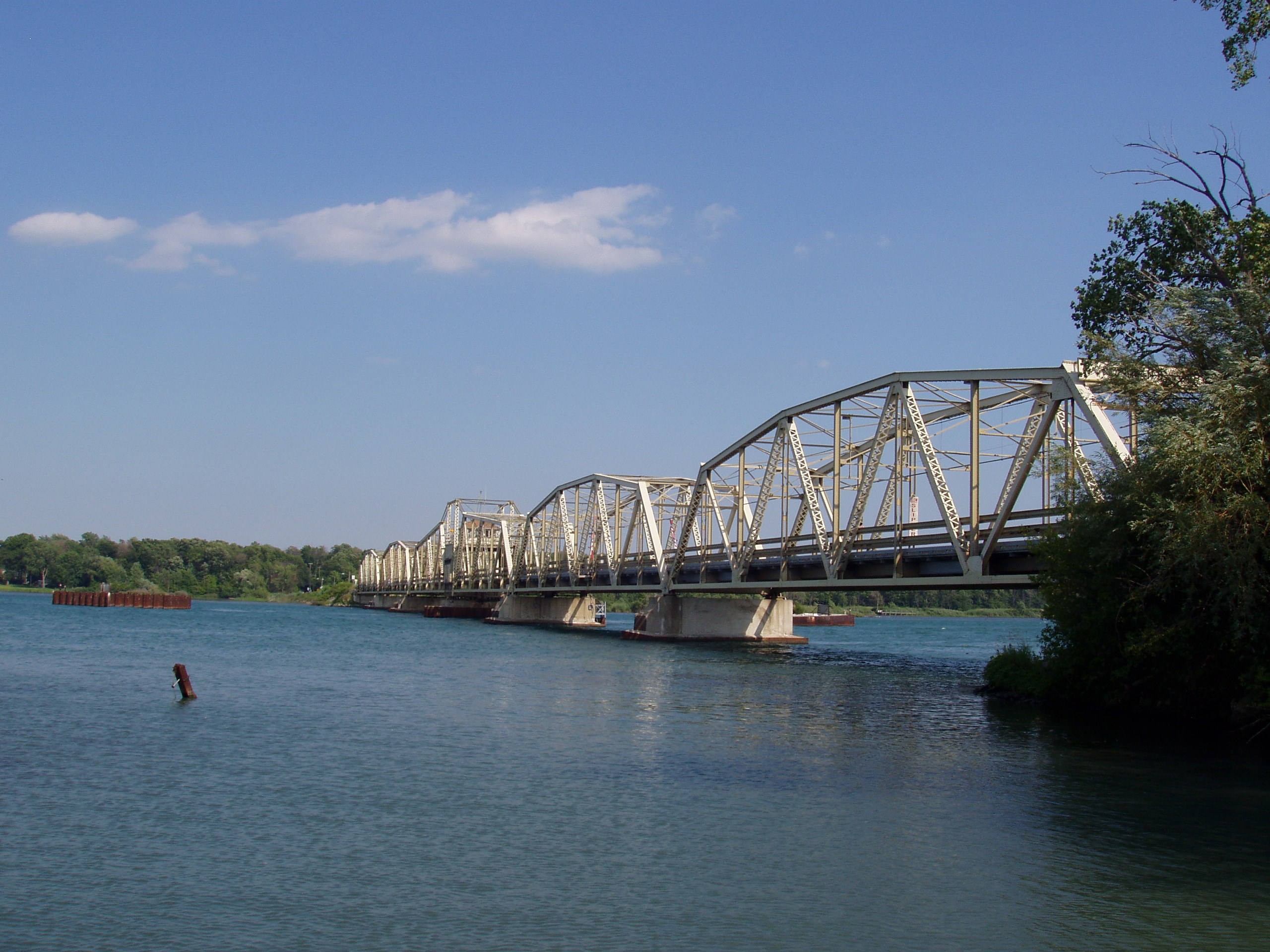 Grosse Ile Toll Bridge photographed by Greg Karmazin on July 24, 2006 from the Riverview Boat launch.